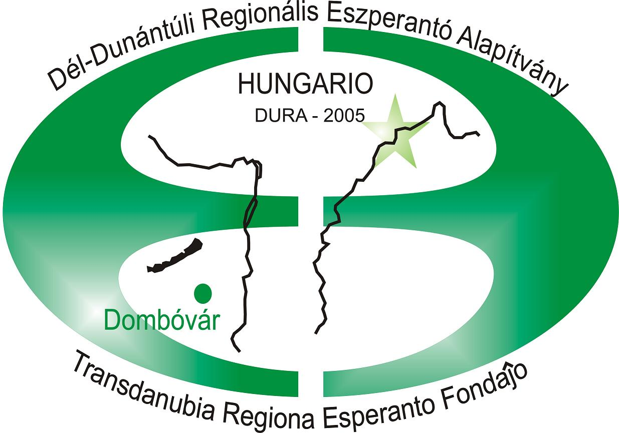 Logo of South Transdanubian Regional Esperanto Foundation (Dombóvár, Hungary)